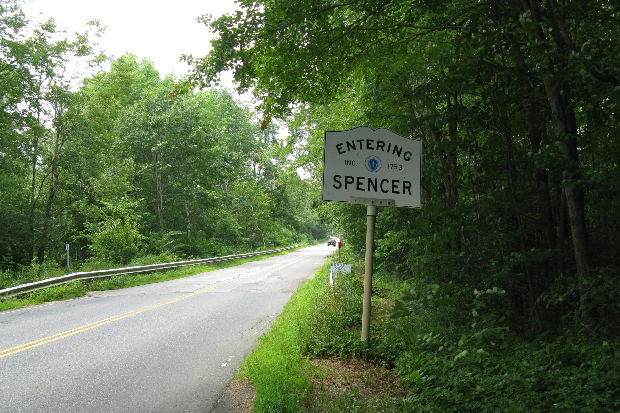 Massachusetts Route 31 northbound entering Spencer Massachusetts